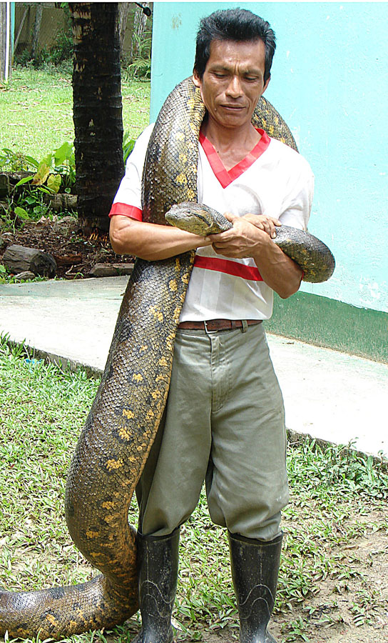 Showing off a docile Anaconada at the ophiological center, Leticia, Colombia. In context at